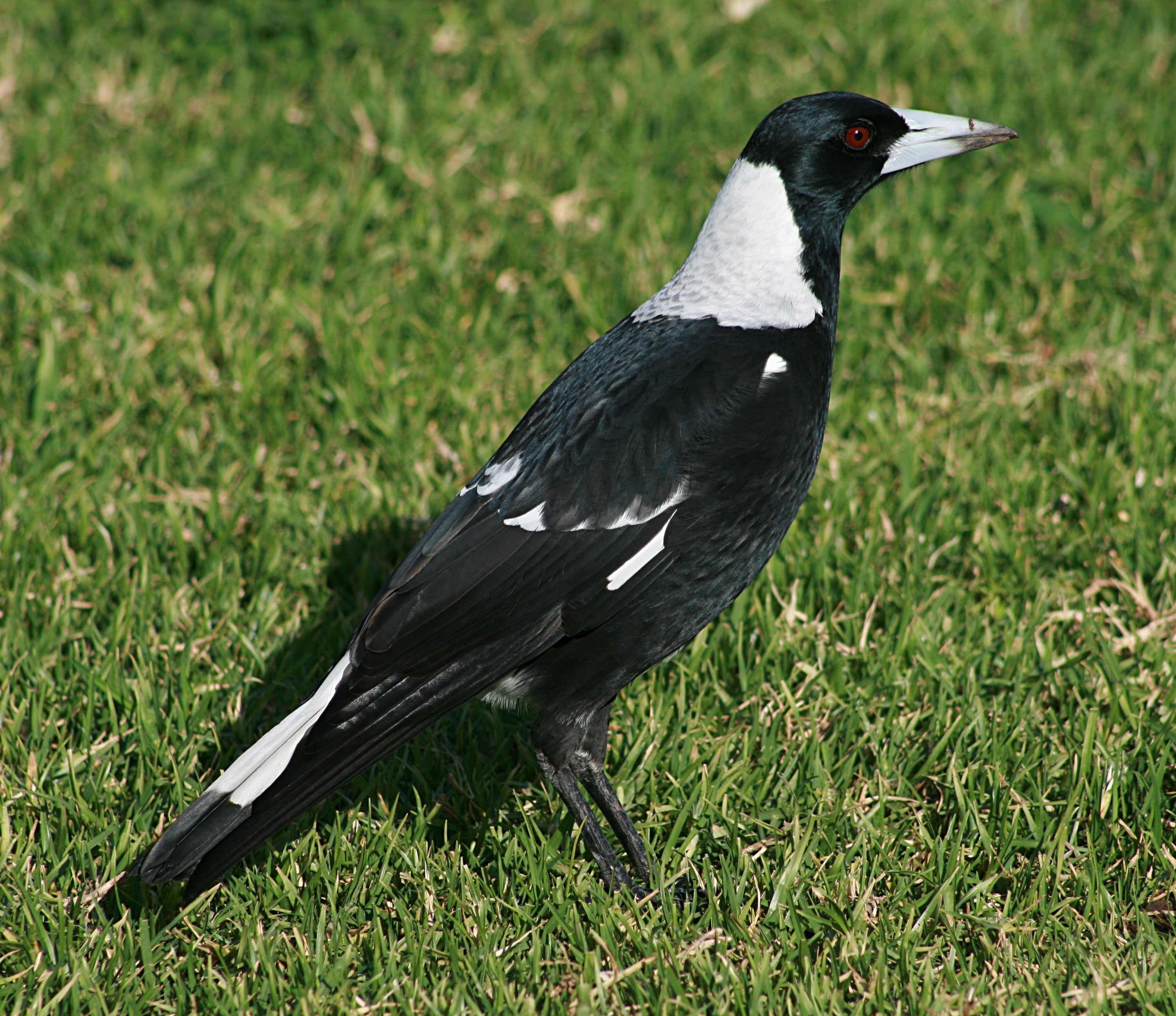 An Australian Magpie (Gymnorhina tibicen) in a Sydney park.